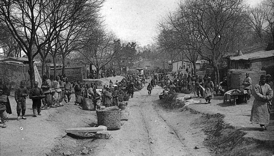 Image from La Chine à terre et en ballon.